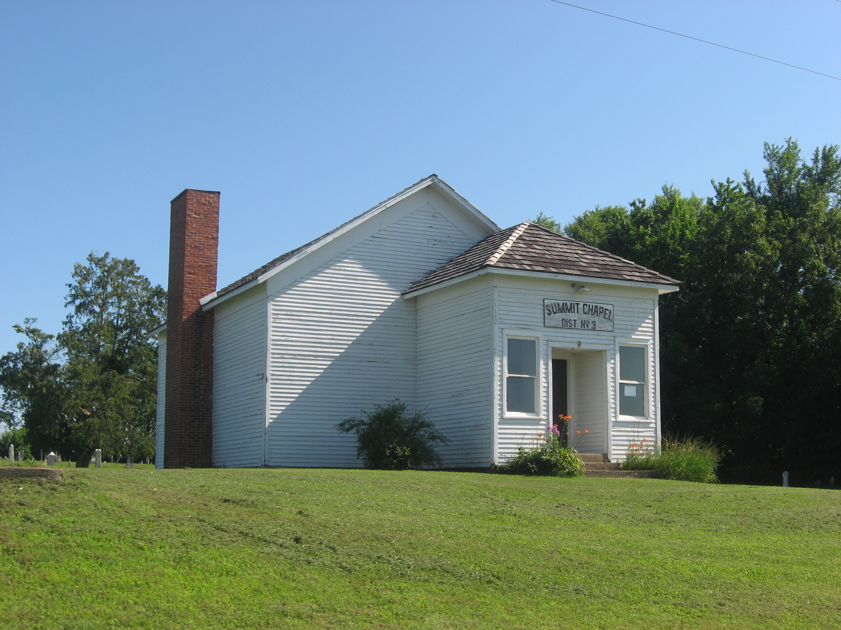 Front and western side of the Summit Chapel School, located on the northern side of State Road 10 at the Birch Road intersection in Tippecanoe Township, Marshall County, Indiana, United States. Built in 1844, it is listed on the National Register of Historic Places.